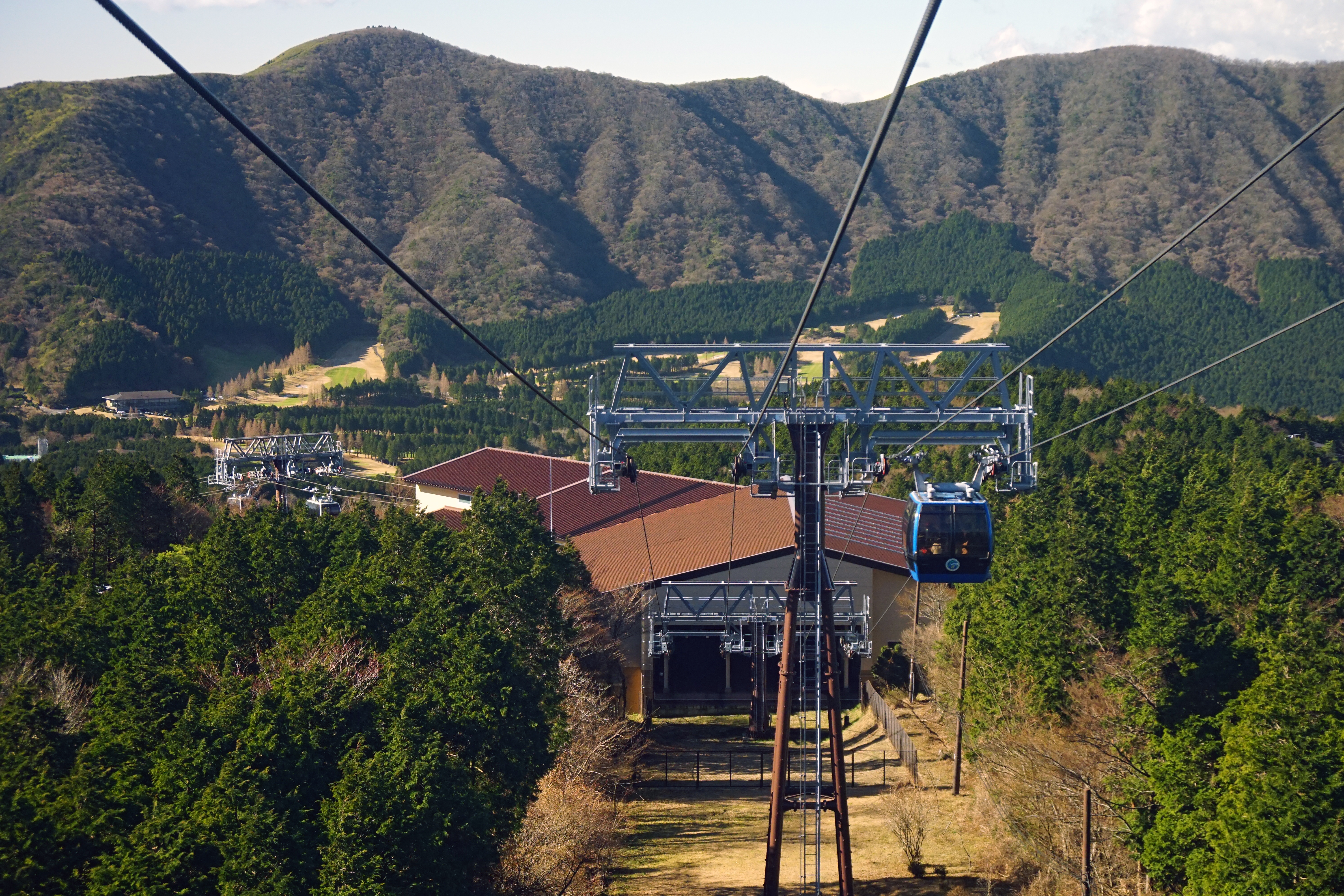 Ubako Station in Hakone Kanagawa prefecture, Japan